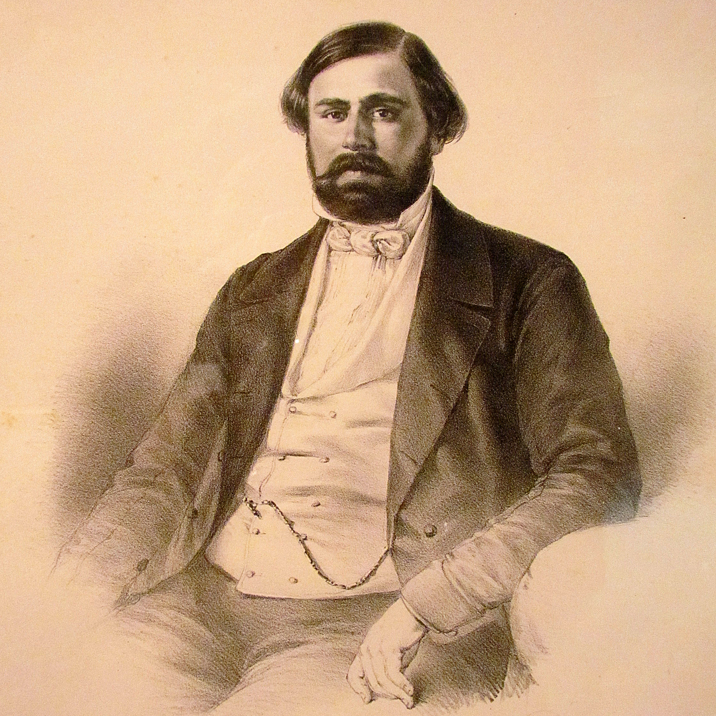 Anastas Jovanović, Avram Petronijević, 1850, lithograph, National Museum of Serbia